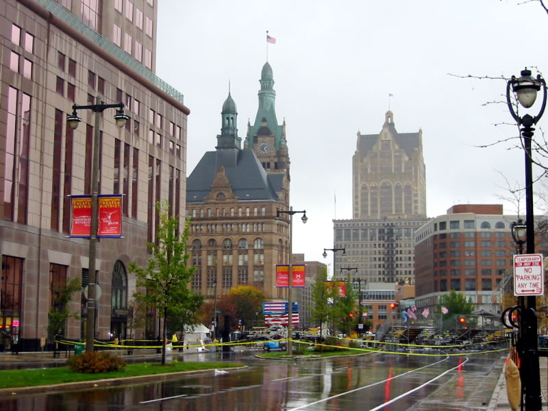 City Hall of Milwaukee, Wisconsin. The street is closed for a Kerry rally earlier.